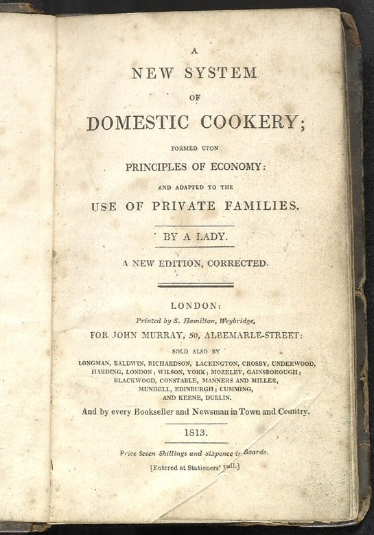 Title page of an early edition of Mrs Rundell's A New System of Domestic Cookery; formed upon Principles of Economy: and Adapted to the Use of Private Families, John Murray, 1813.